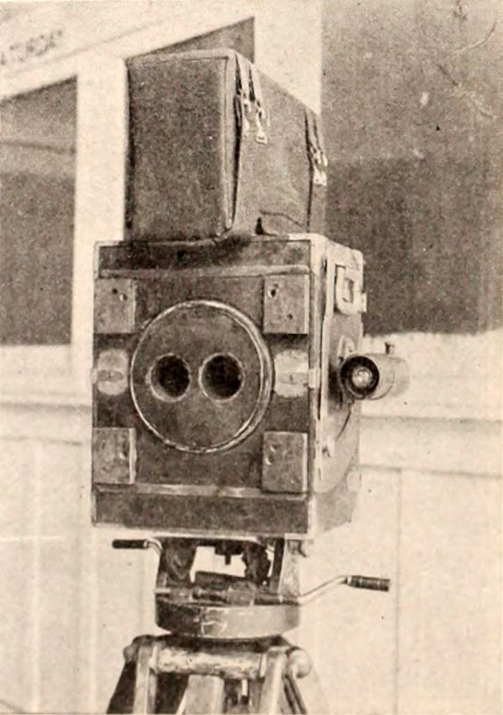 Illustration of an article in Exhibitor's Herald on the American film The Power of Love